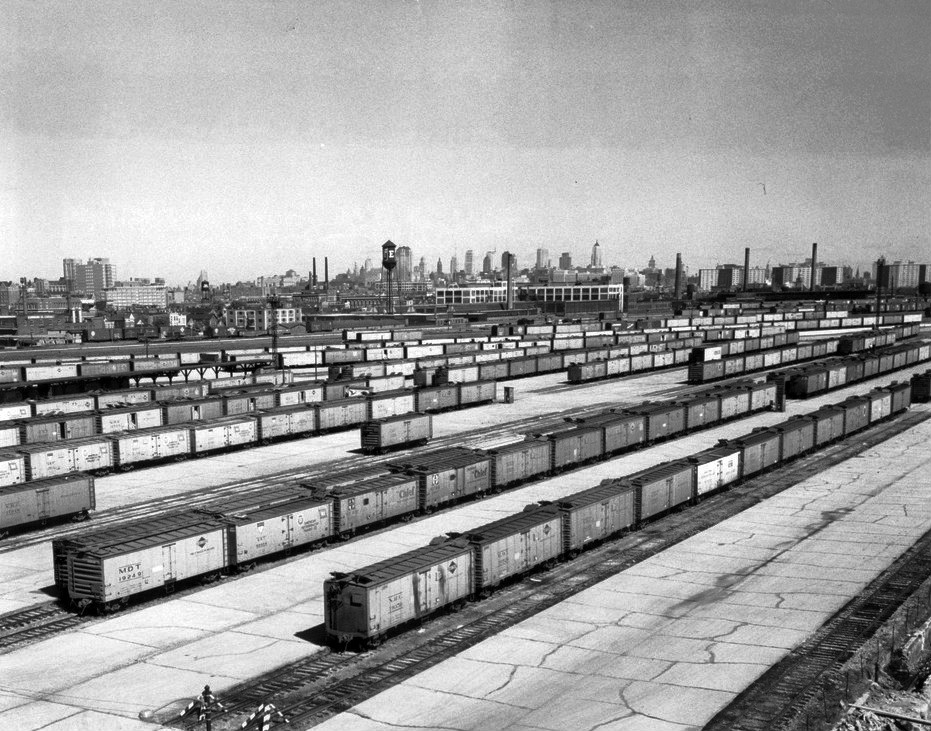 Photo of the North Western Railway's Wood Street freight facility, which was once known as the "potato yard". Potatoes came to this yard from all points in the United States to be bought, sold or traded by dealers and brokers. While it was called the "potato yard", other vegetables were also bought and traded there. The boxcars shown in the photo primarily contain potatoes.